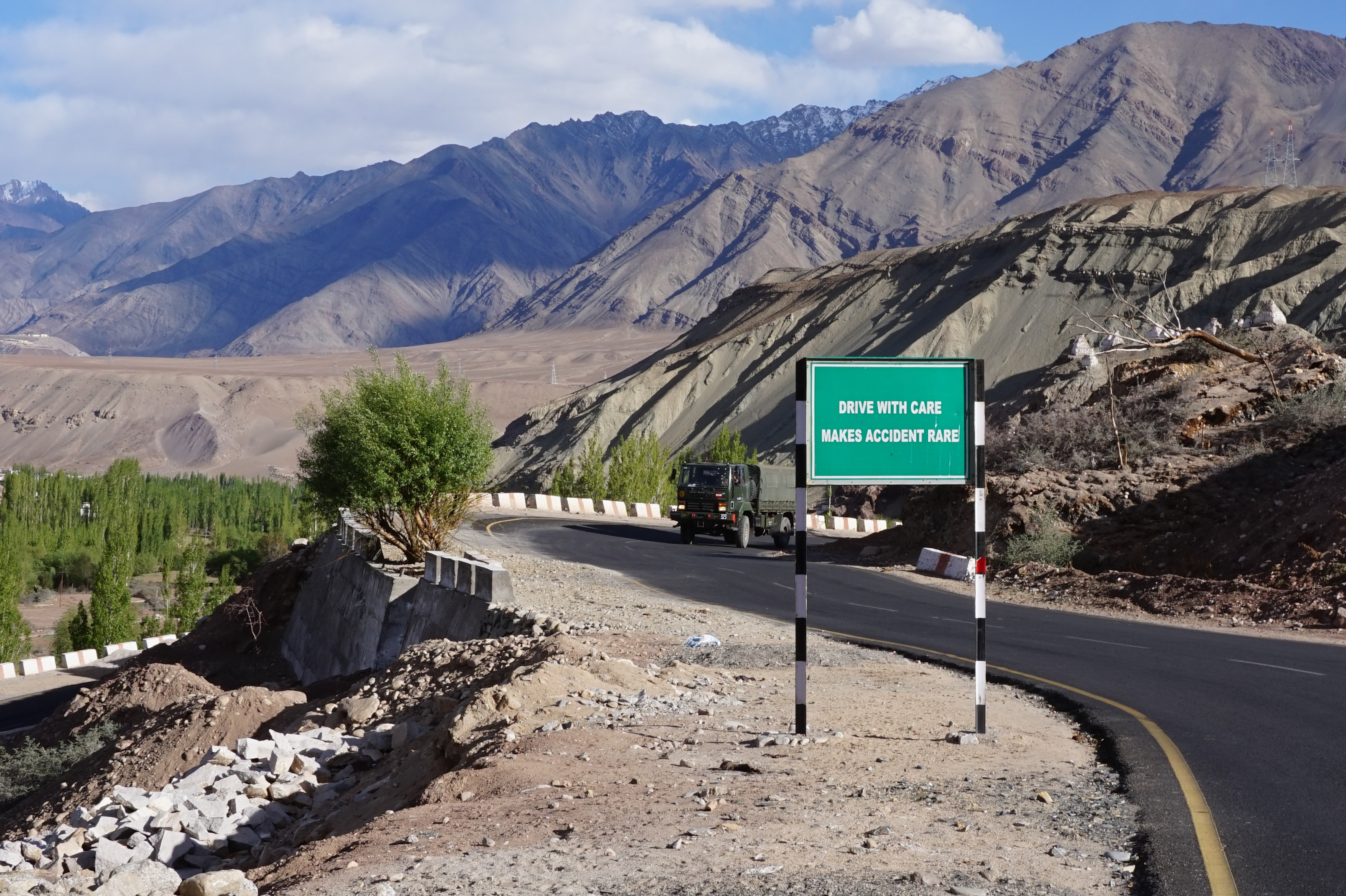 A road sign saying "Drive with care makes accident rare" near Basgo, Ladakh, India